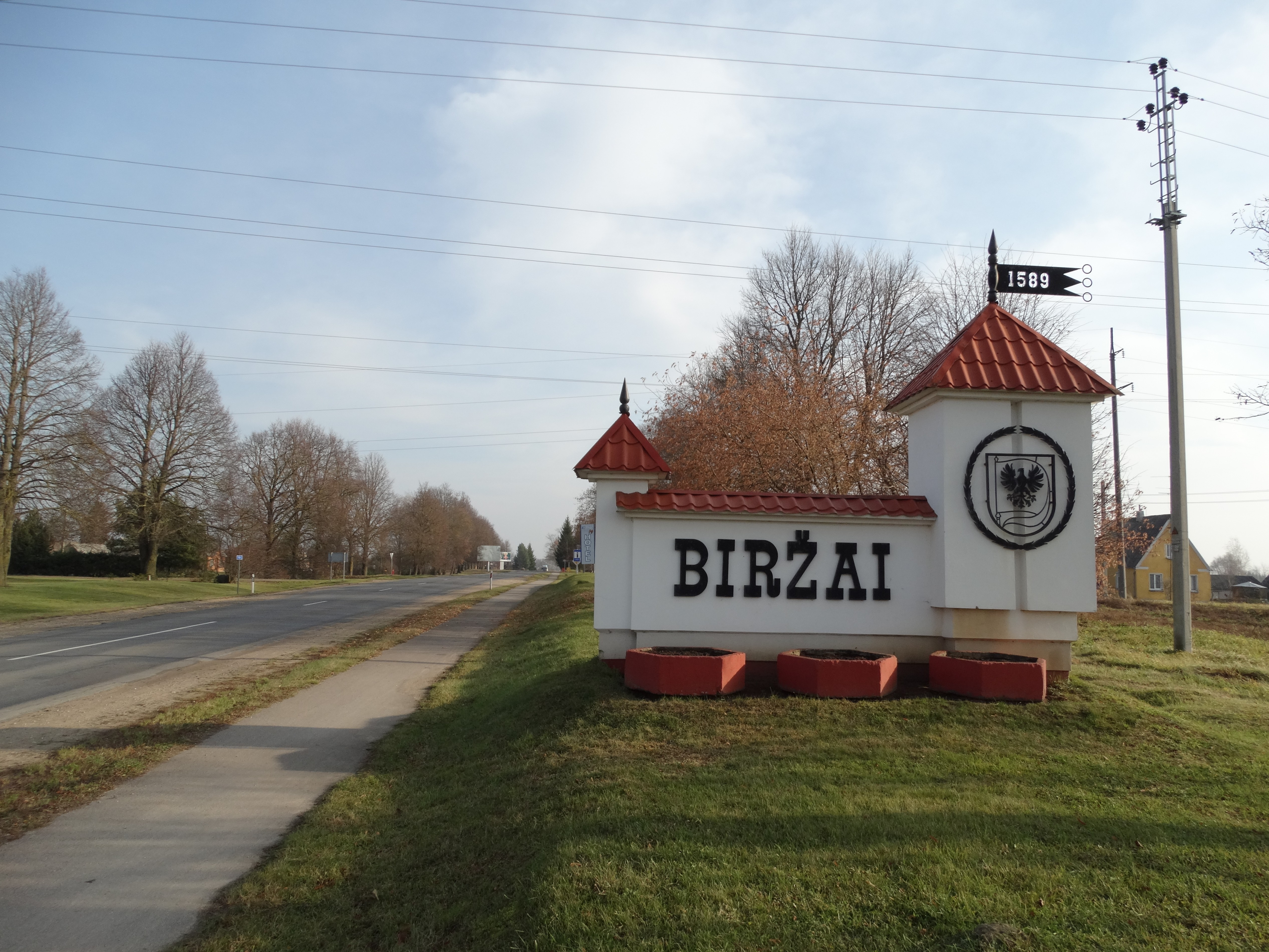 Biržai, Lithuania